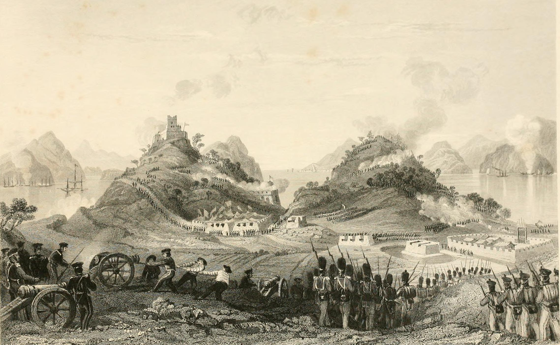 Attack and capture of Chuenpee, near Canton.